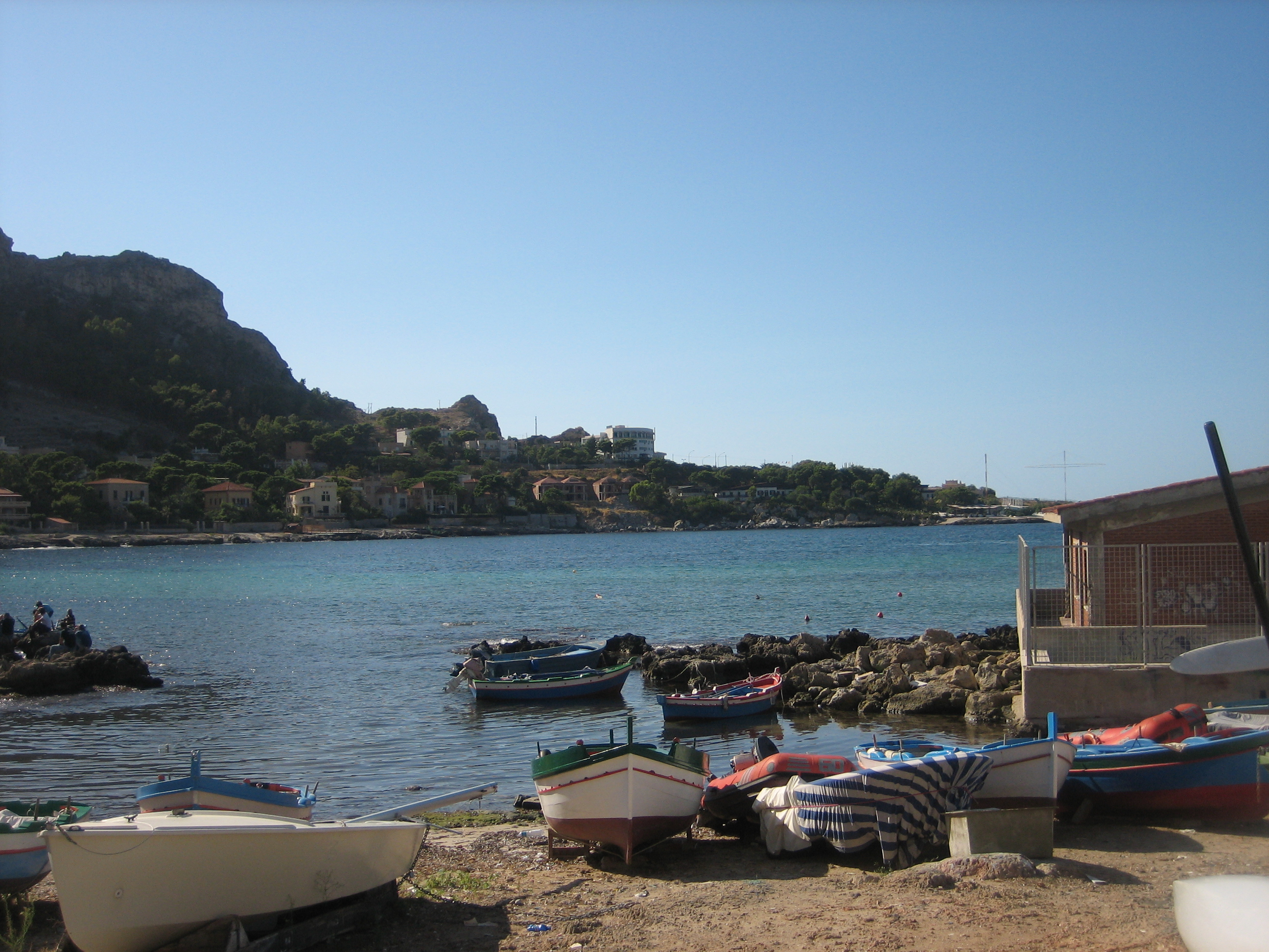 View over the bay of Sferracavallo and the harbour of the fishermen.